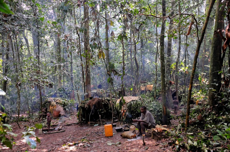 Bayaka people in the Dzanga Sangha Ndoki reserve. Central African Republic rainforest